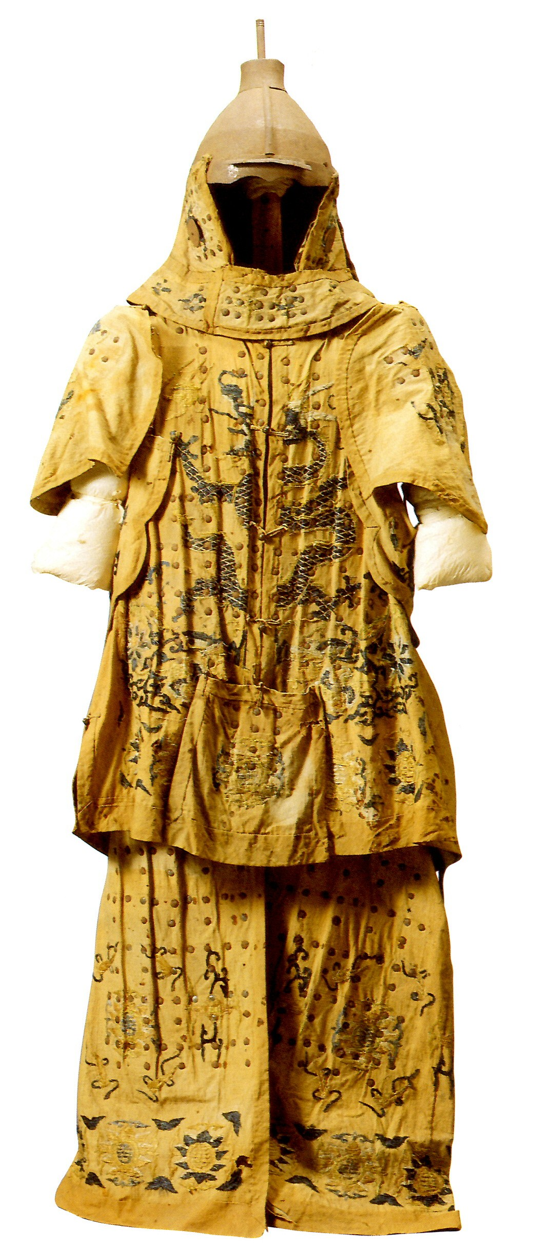 Helmet and costume of the Mongol Yuan warrior during the Mongol invasion of Japan.